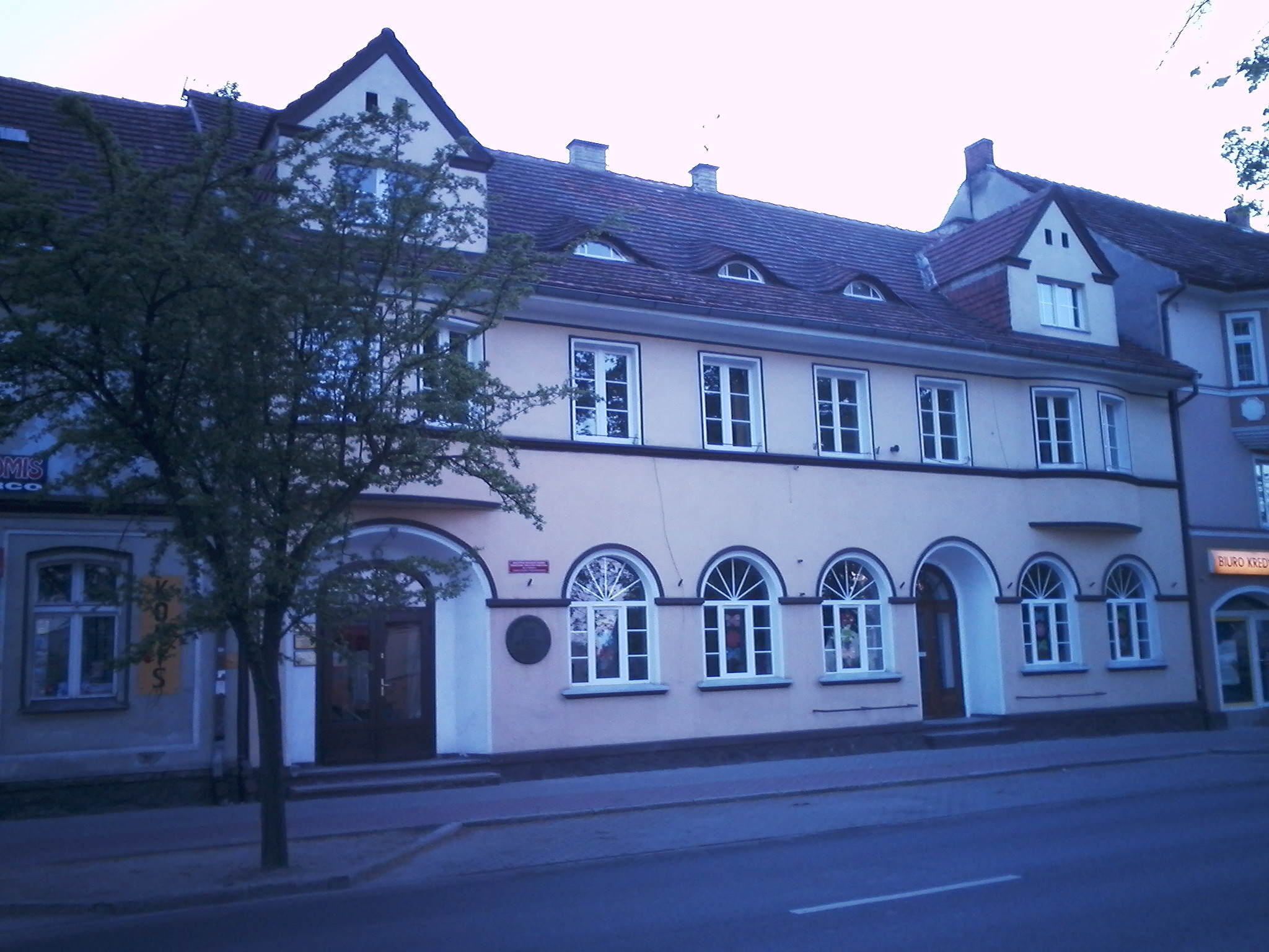 The Kazimiera Iłłakowiczówna Public Library in Trzcianka